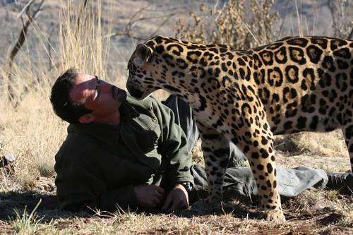 Kevin Richardson lies down next to a jaguar